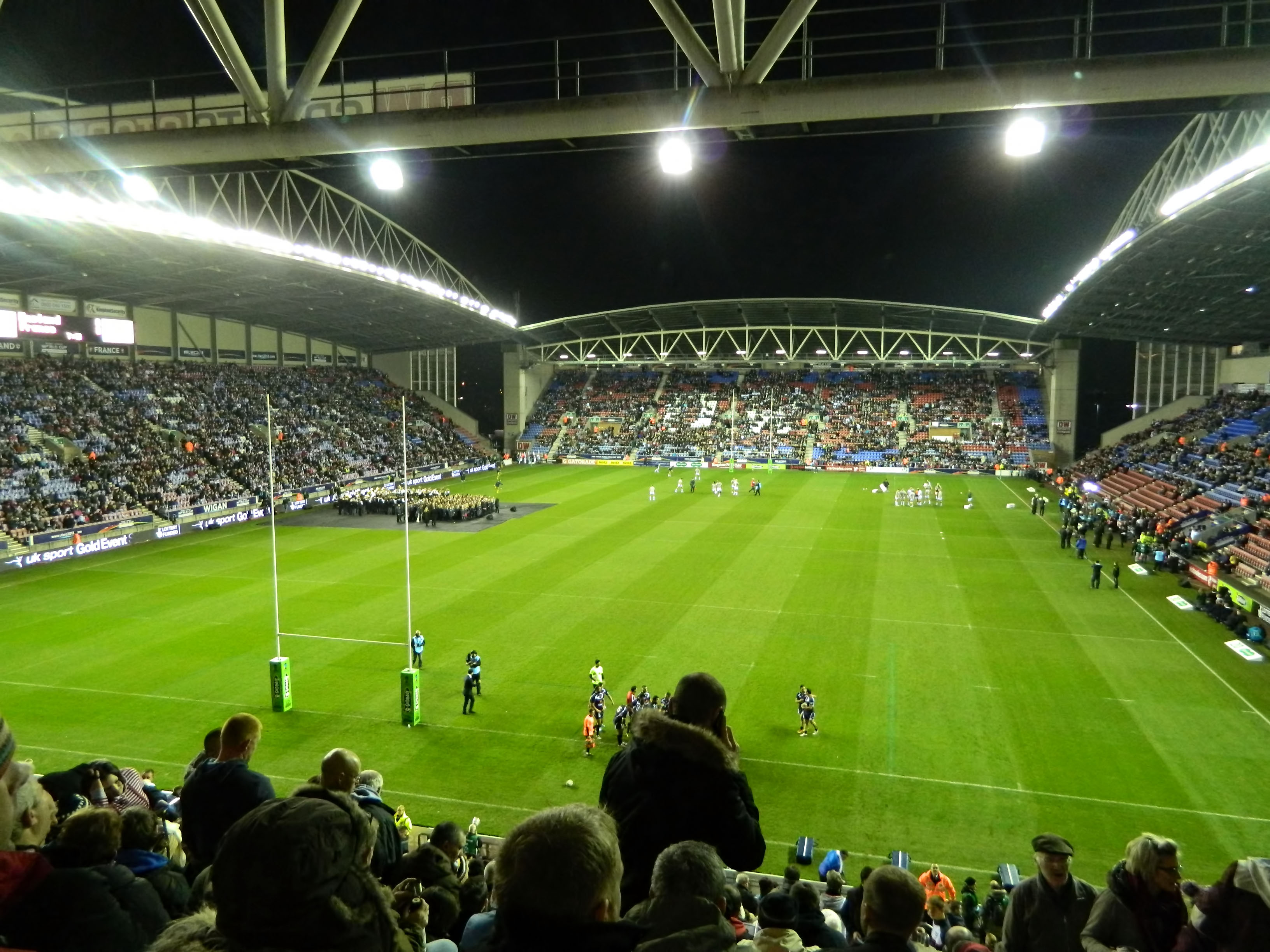 2013 Rugby League World Cup quarterfinal between England and France at DW Stadium, Wigan.